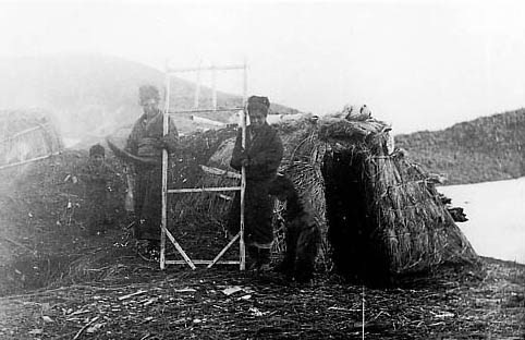 The traditional dwelling of Kuril Ainu - dugout.